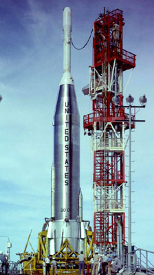 The Atlas-D Able rocket carrying Pioneer P-3, sitting on Cape Canaveral's Launch Complex 14. It launched on 26 November 1959, but failed to reach orbit. The cowling covering the probe failed shortly after launch resulting in the loss of the probe.